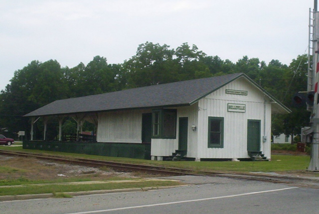 Photo taken of the Bellville train depot in Bellville, Georgia. The depot is an historic landmark in the town and within Evans County, Georgia.